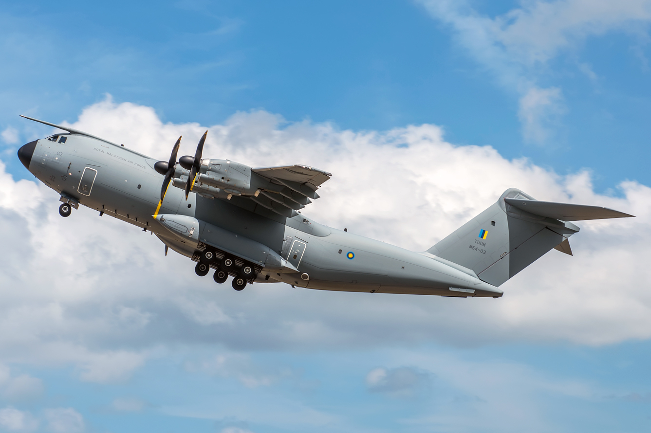 Royal Malaysian Air Force Airbus A400M Atlas REG: M54-03 MSN: 036 at Pulau Langkawi - International (LGK / WMKL) Malaysia - March 22, 2017